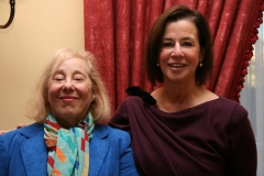 Rosabeth Moss Kanter, professor of business at Harvard Business School and author of books on management and sociology, with Susan Solomont, wife of Alan Solomont, US Ambassador to Spain and Andorra, in the US Embassy in Madrid.